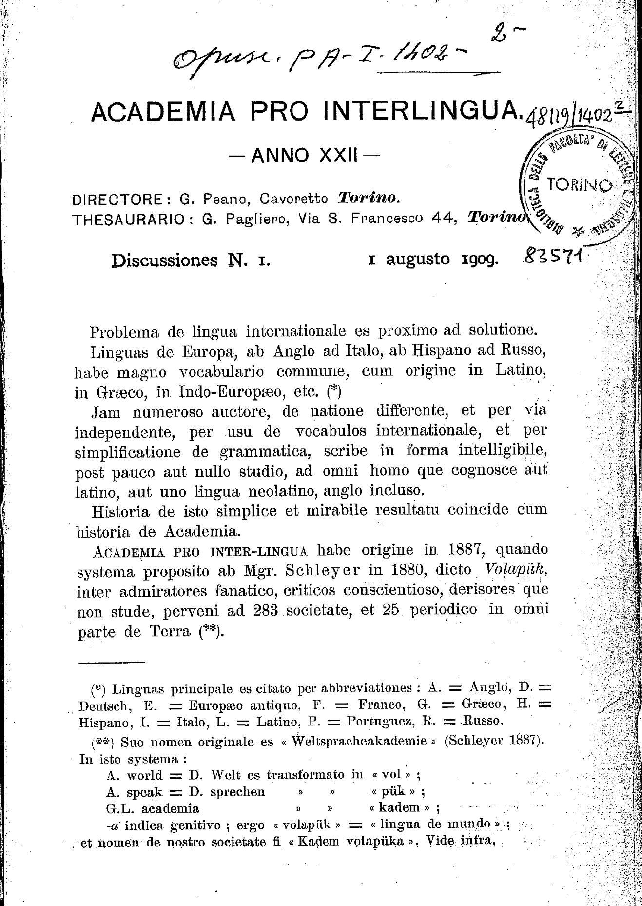 The 1st page of N. 1 of the official journal "Discussiones" of the "Academia pro Interlingua" directed by Giuseppe Peano. Written in "Latino sine flexione".